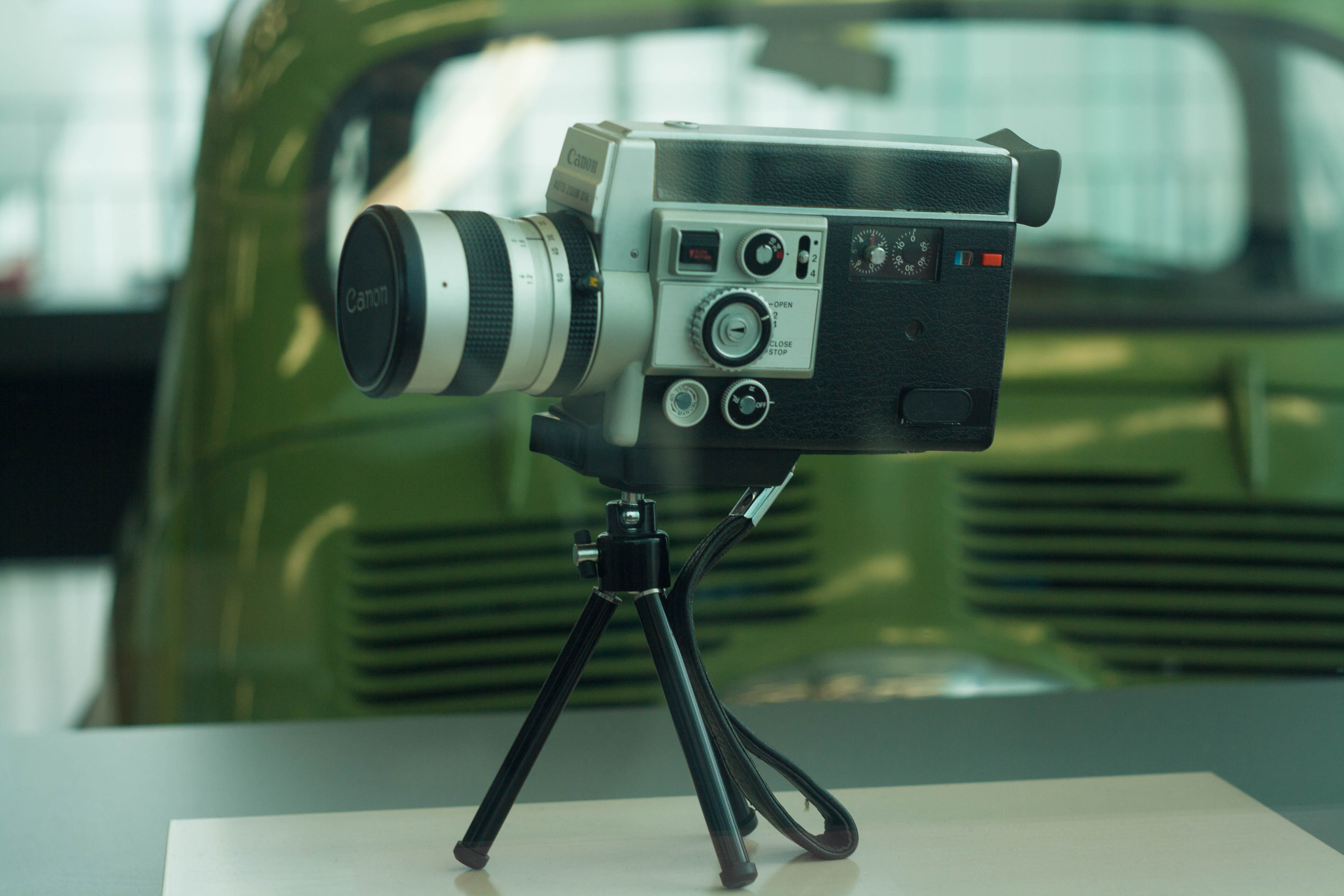 Canon - Popular en los años 60 y 70, tenía autozoom y grababa en super 8. Filmó el asesinato del presidente Kennedy